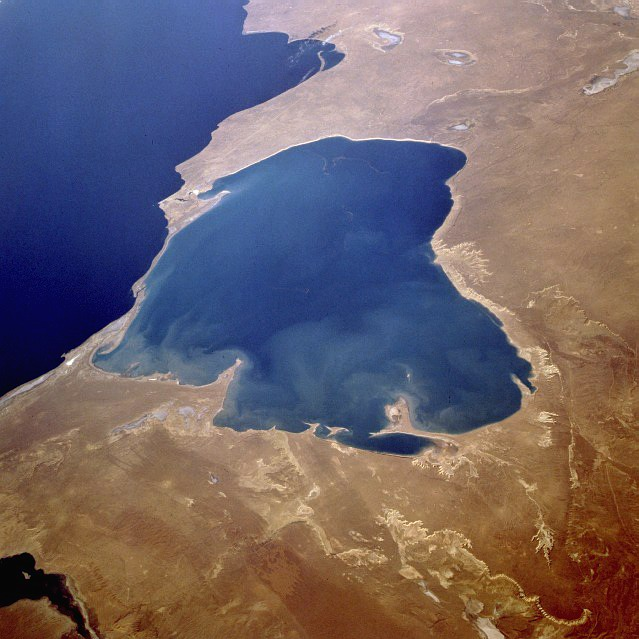 Kara-Bogaz Gol and Caspian Sea, Turkmenistan - September/October 1995